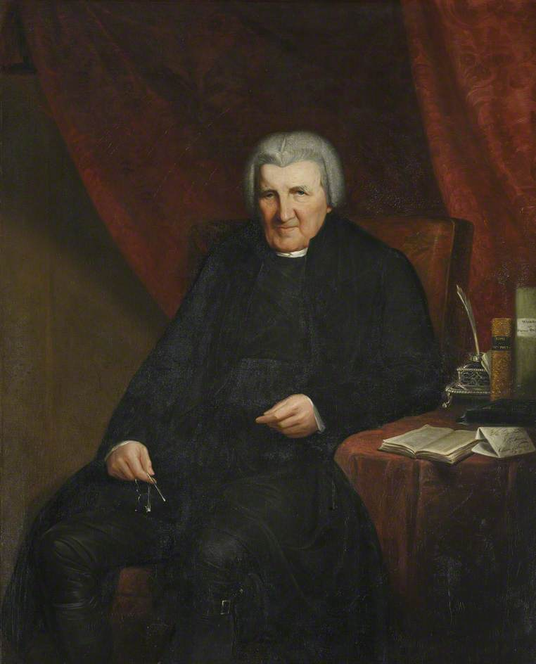 Joseph Turner (c.1746-1828), Master of Pembroke College, Cambridge